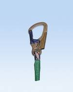 Safety hook